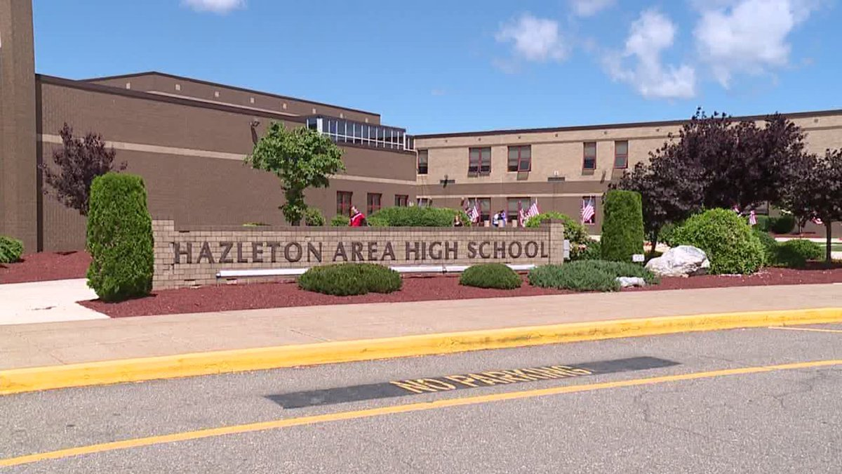 The exterior of the Hazleton Area High School, Hazleton, Pennsylvania.